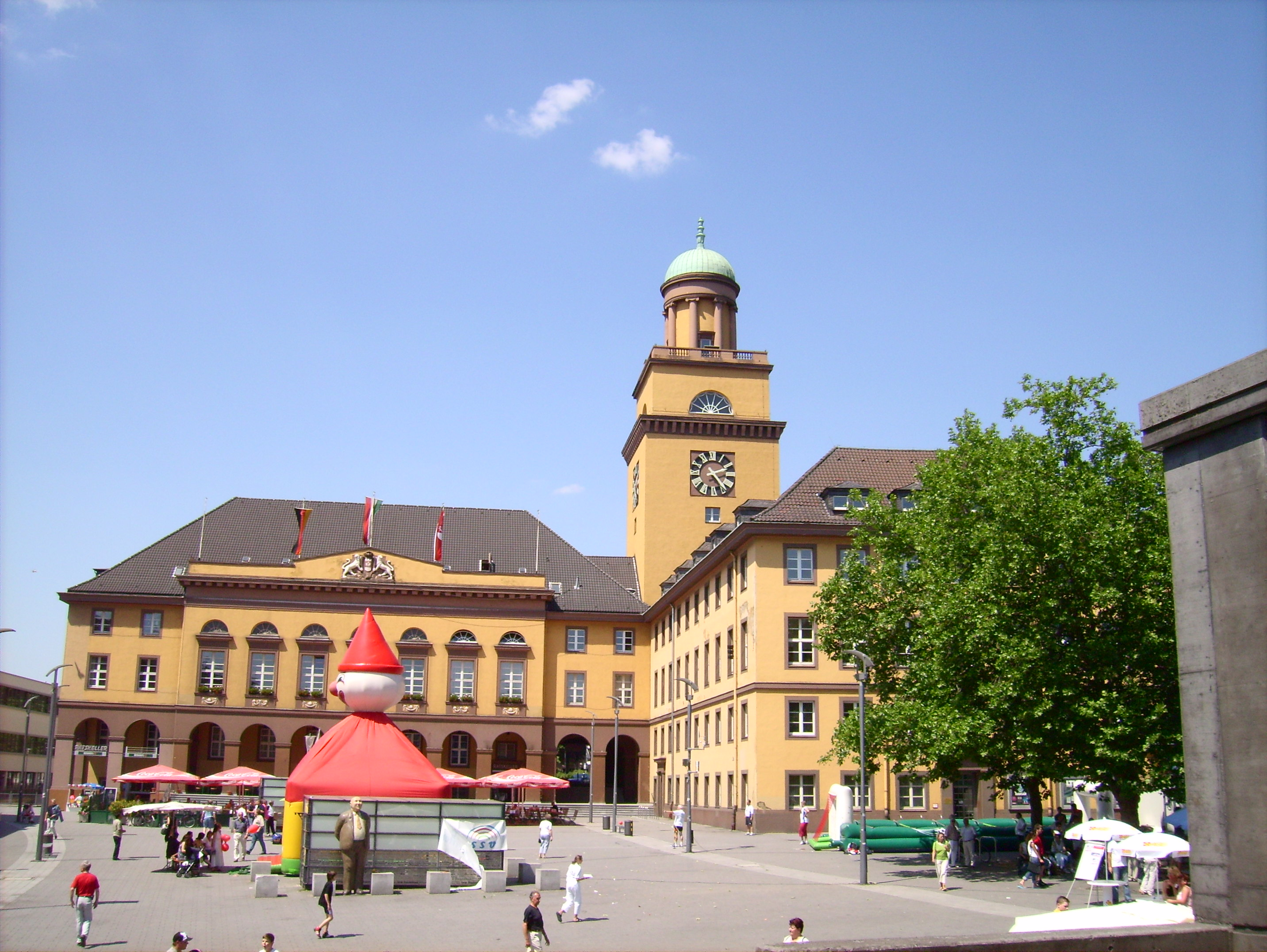 town hall of Witten